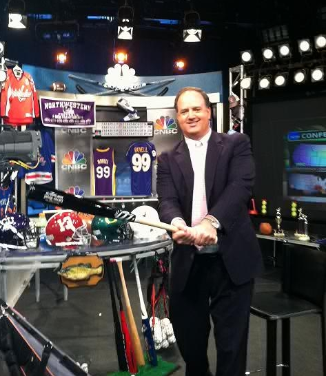 George Pyne at CNBC